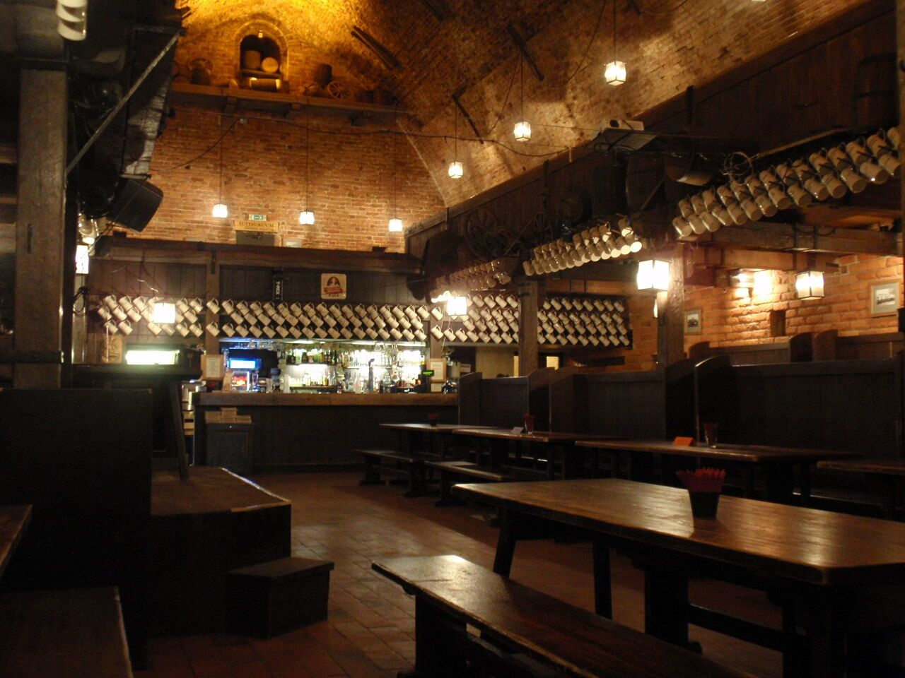 Gunpowder Cellar of Tartu